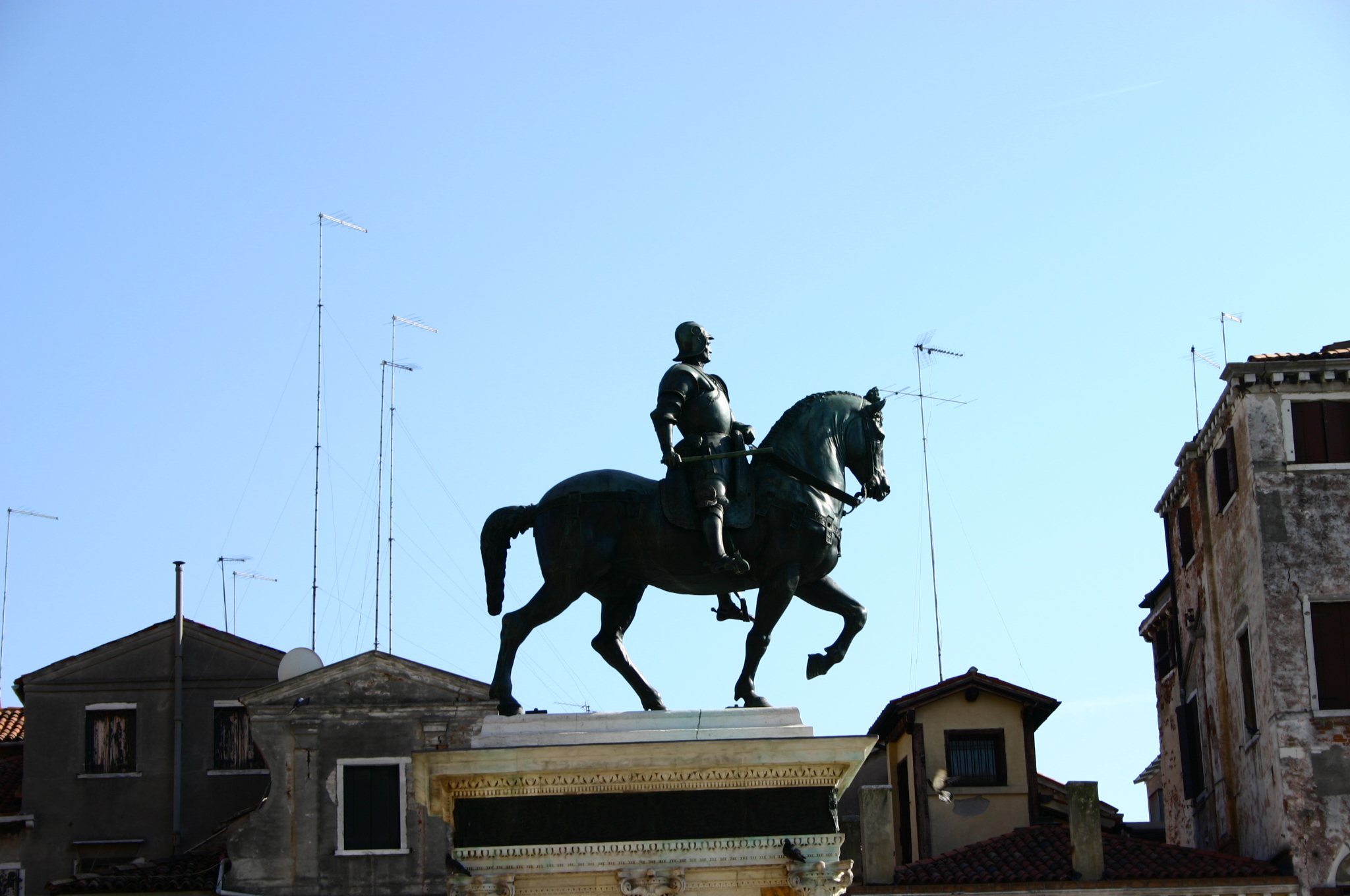 Bartolomeo Colleoni, bronze statue by Verrocchio, in Venezia, "Campo dei santi Giovanni e Paolo" square. Picture by Giovanni Dall'Orto, July 2, 2006.